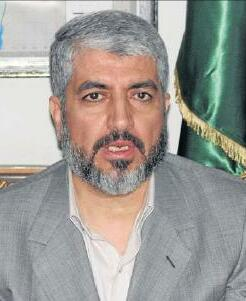 Khaled Mashal, leader of Hamas